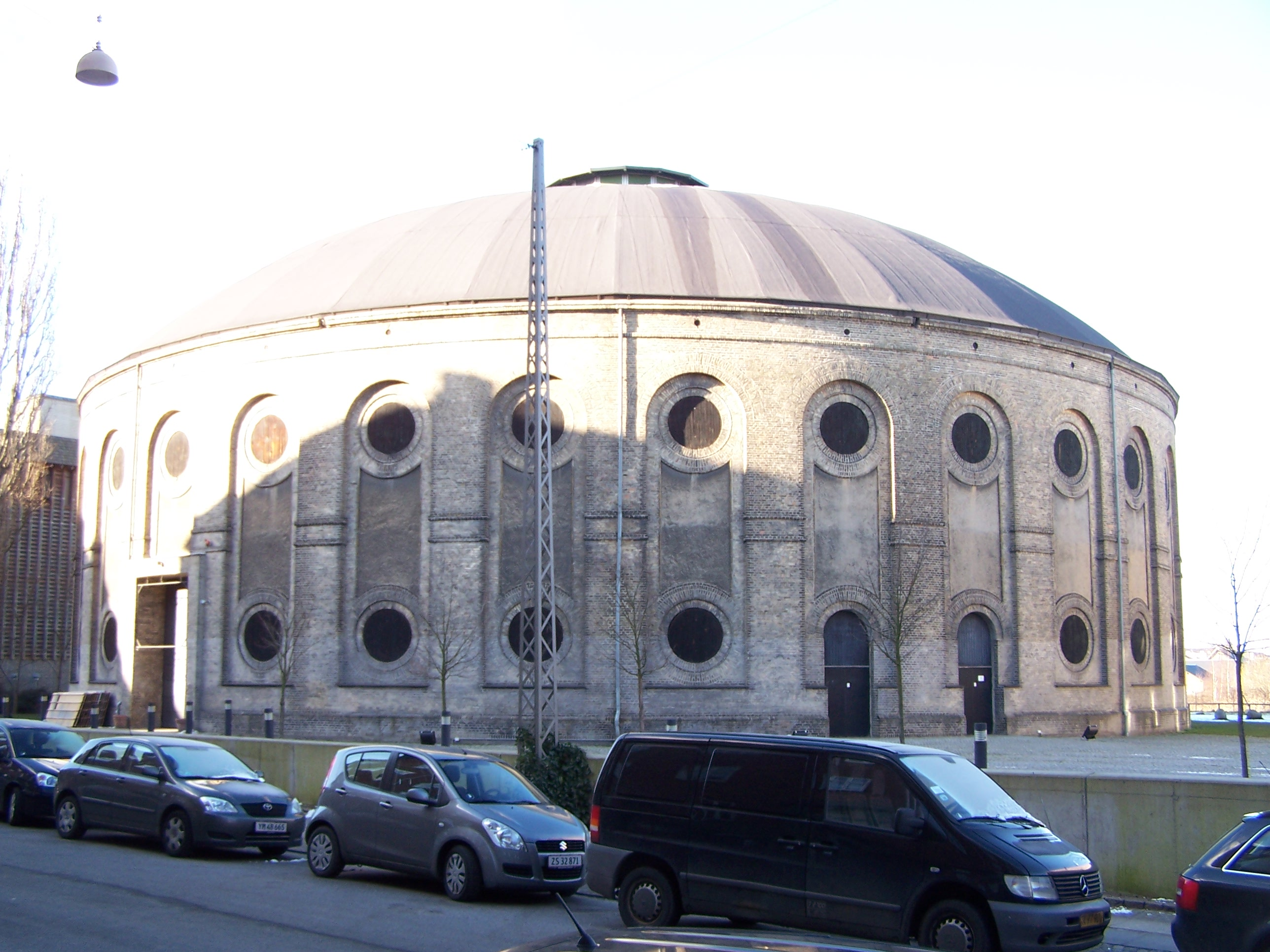 Østre gasværk Theater